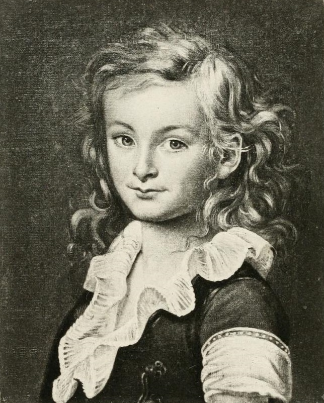 Portrait of Mérimée as a Child.